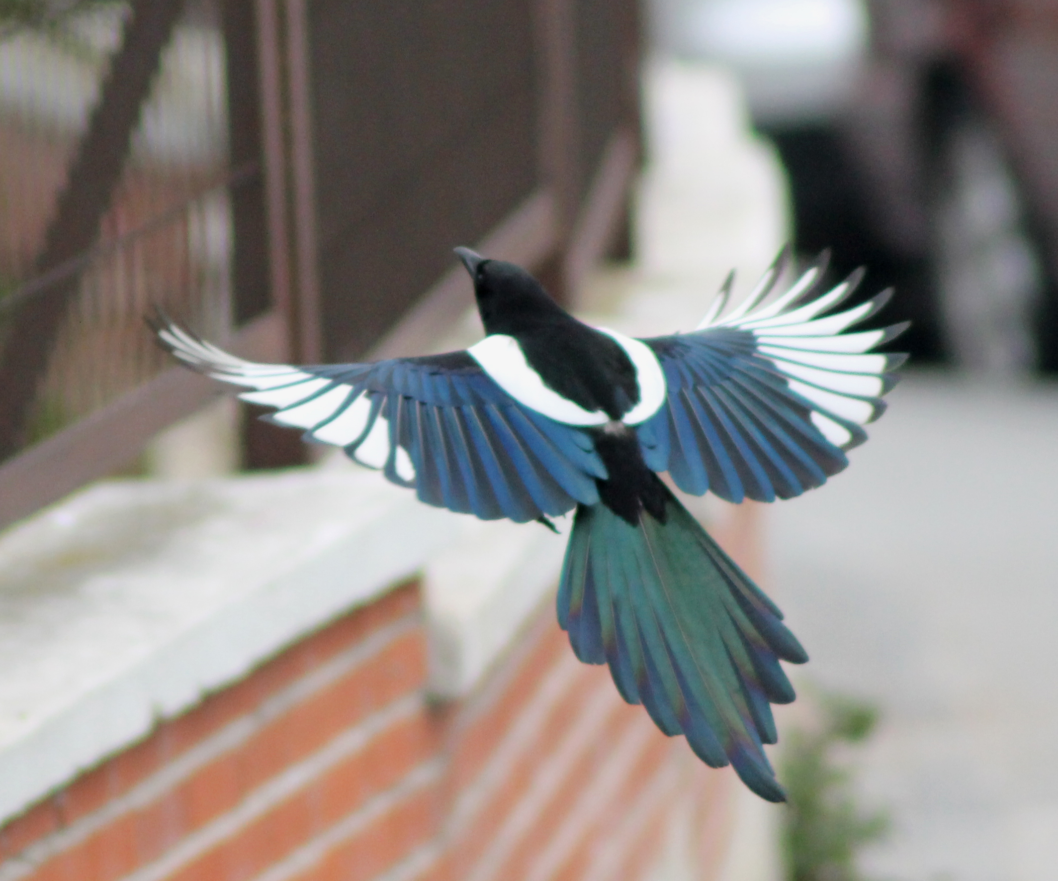 A European magpie (Pica pica) in Madrid (Spain).